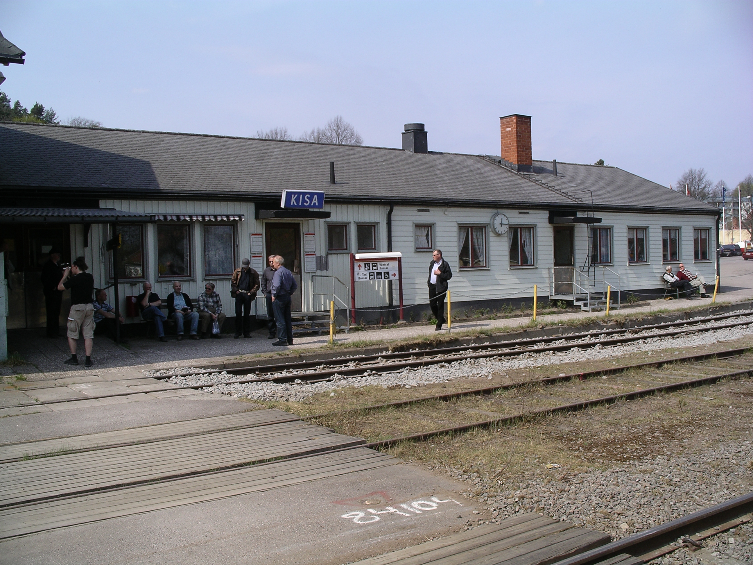 Railway station Kisa in Sweden. Demolished 16 June 2020.